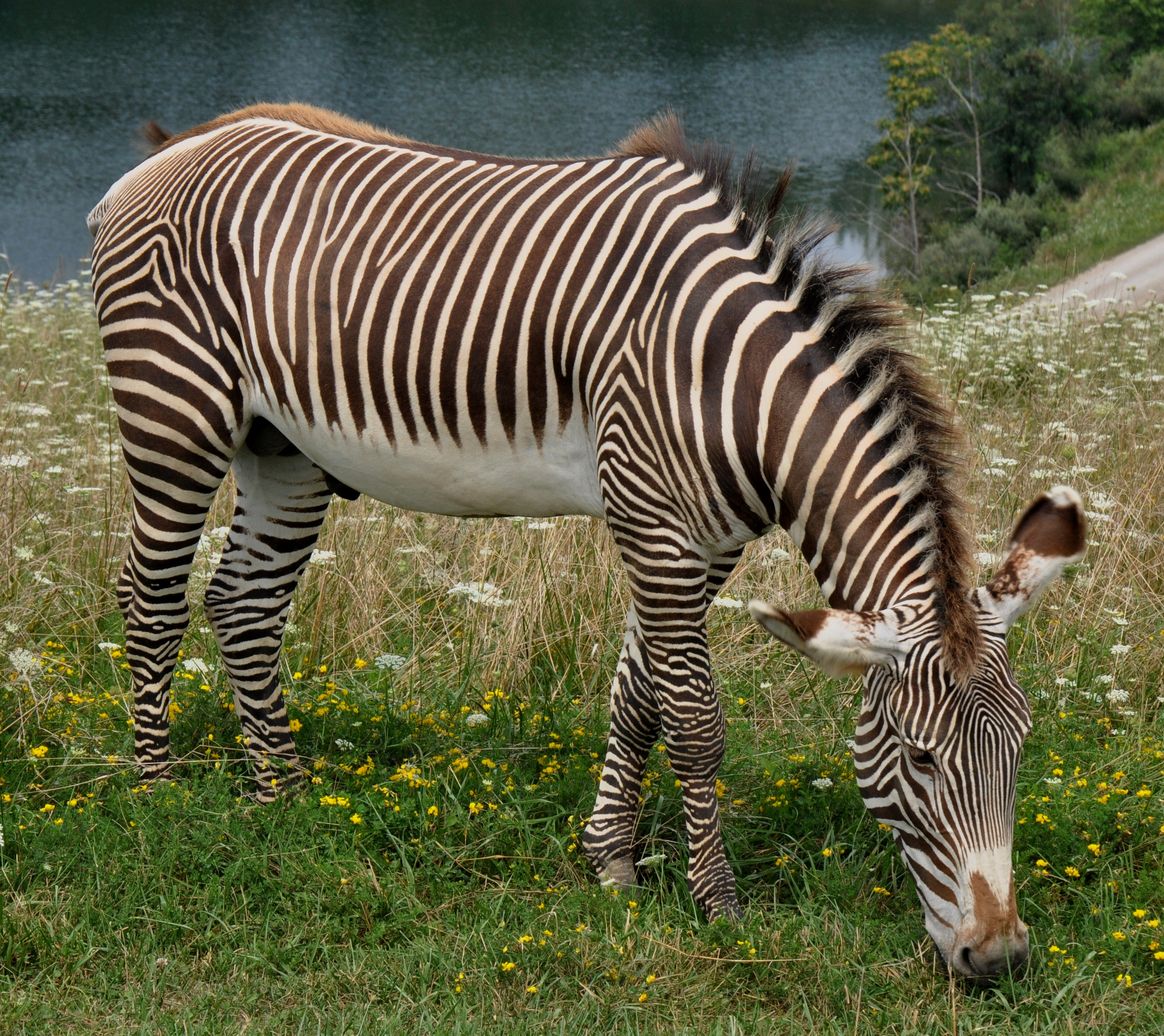 Grevy's Zebra grazing